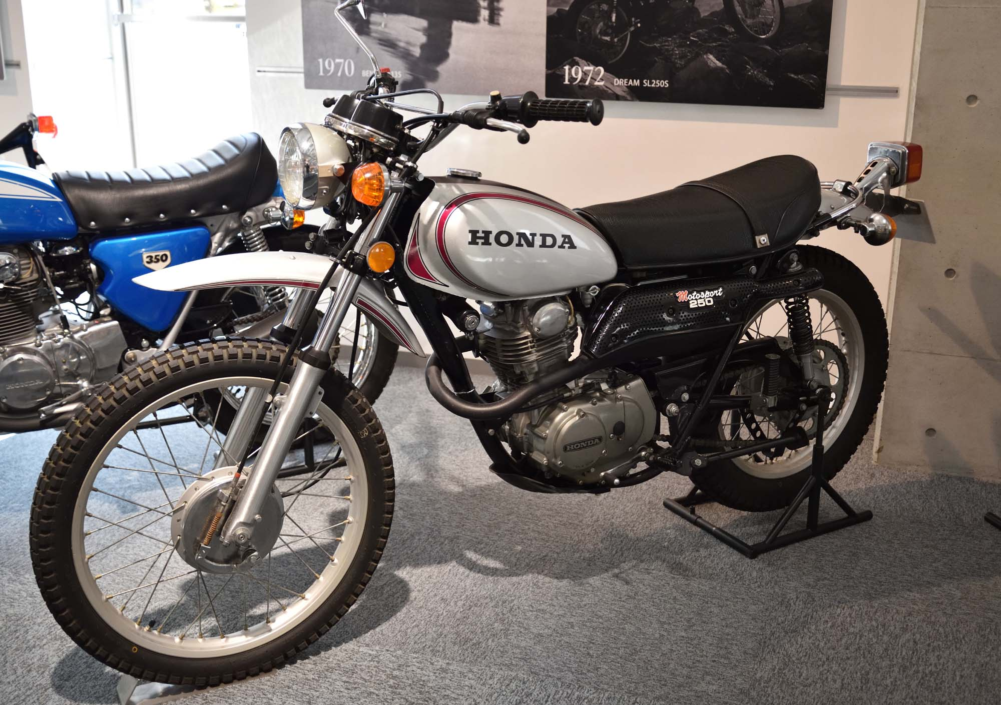 Honda SL250S (1972), in the Honda Collection Hall, Japan